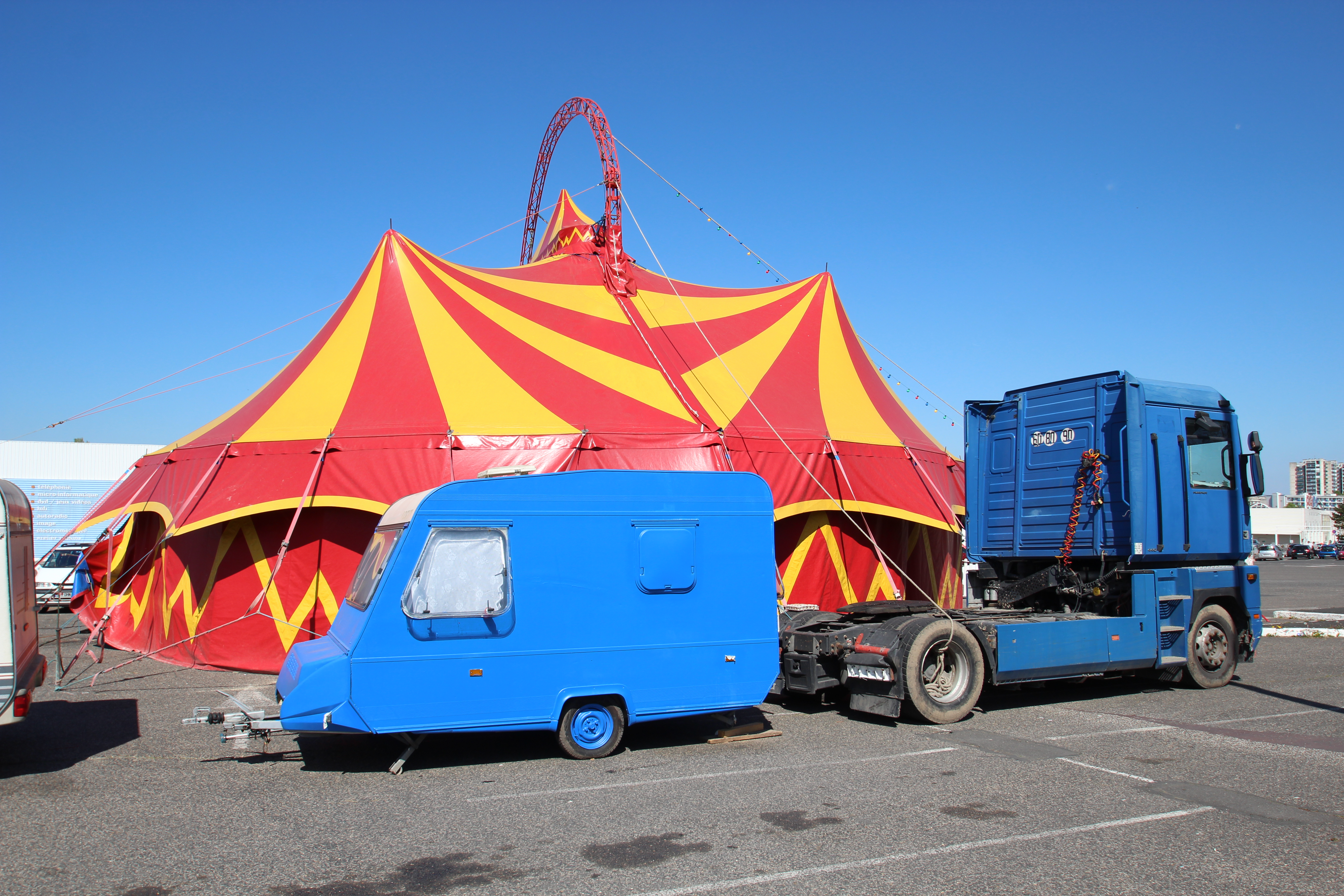 Joseph Bouglione circus in front of the moins X pour cent shopping mall in Massy, Essonne, France. Object location48° 43′ 21.72″ N, 2° 16′ 30.36″ E